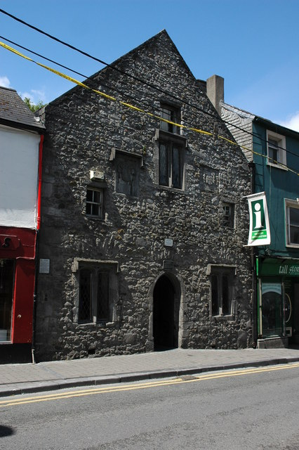 Shee Almshouse, Kilkenny The Shee Almshouse on Rose Inn Street was built by Sir Richard Shee in 1582 to help Kilkenny's poor. Today the building is home to Kilkenny's Tourist Information Office.